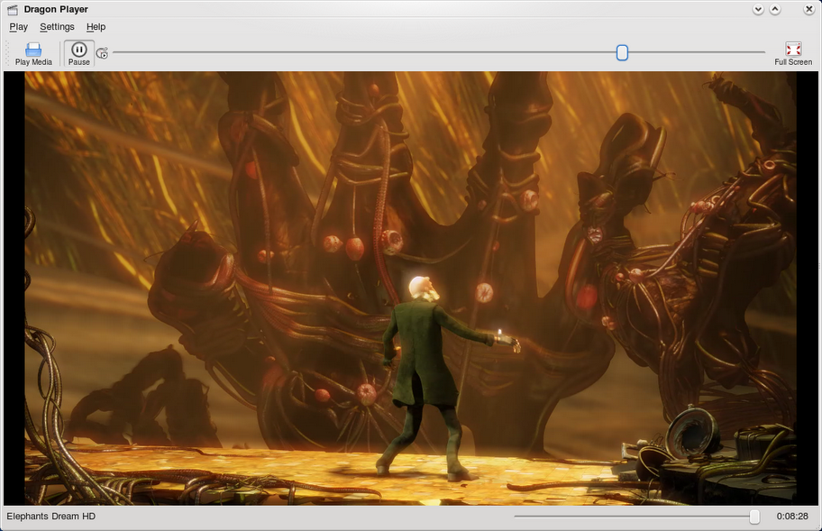 Screenshot of Dragon Player, a simple video player for KDE